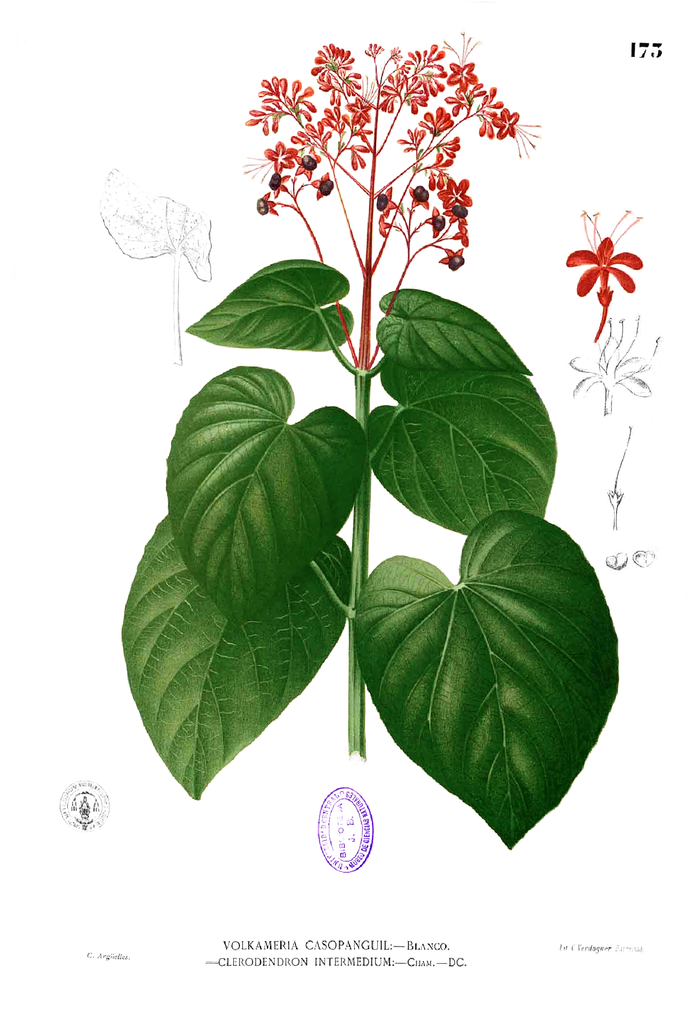 Plate from book Clerodendrum intermedium